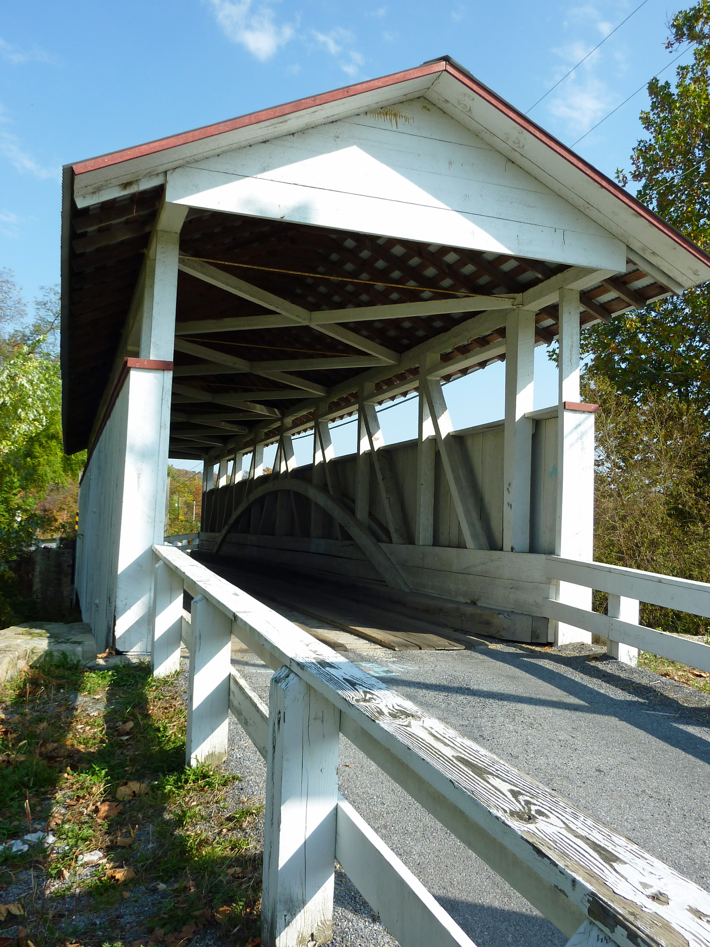 Snooks Covered Bridge built in 1880 over Dunning Creek in at East St. Clair Township, Bedford County, Pennsylvania, USA. Original text from Flick: During a family visit back to western PA in October 2010 we hopped in my sister's car and checked out some quaint covered bridges - I think all of them are in Bedford County (but let me know if I'm wrong). The bridges are still in good shape but several are no longer in use. It was a fun day checking these out since I had never seen any of them before.